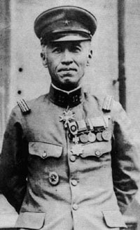 Photo of Toshishiro Obata, a general before and during WWII.